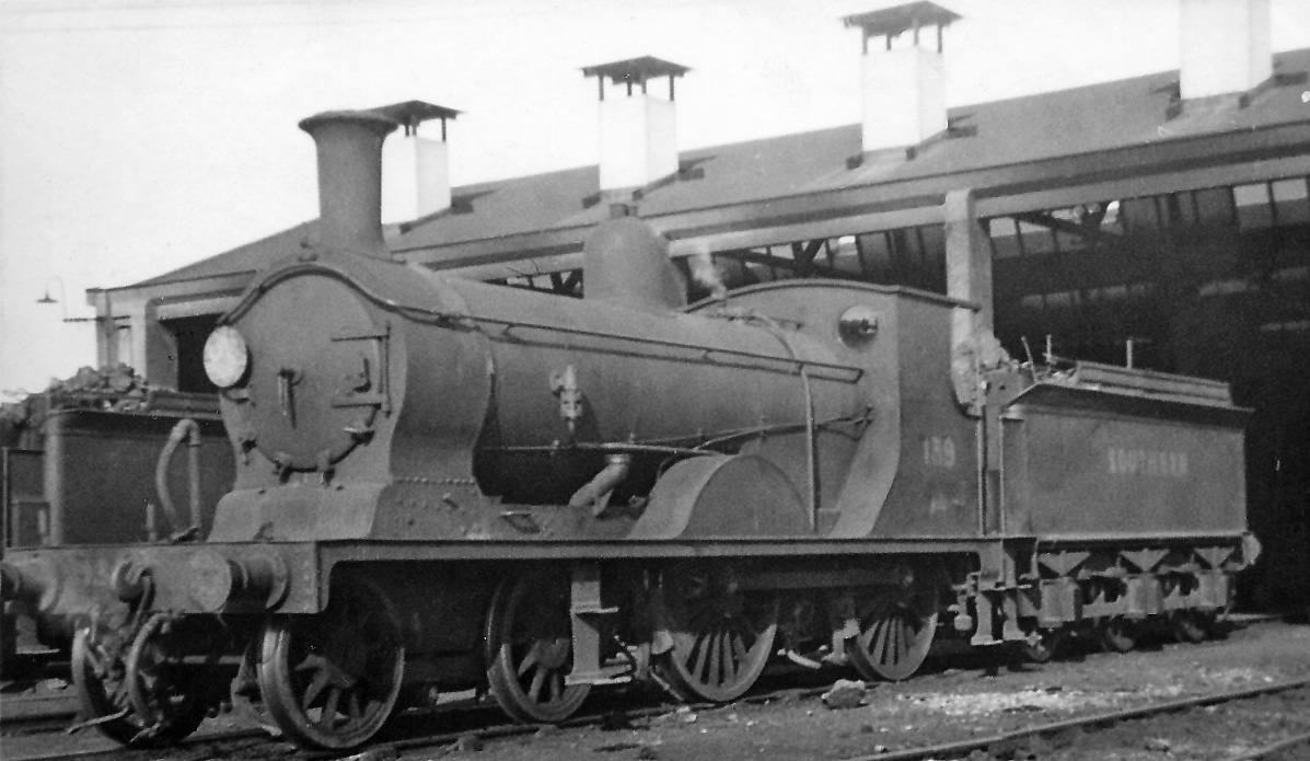 Ex-LSW 4-4-0 at Feltham Locomotive Depot. No. 139 is a Drummond class K10 4-4-0, designated 'mixed-traffic' but more often used for local goods, built 10/1902, withdrawn 9/48